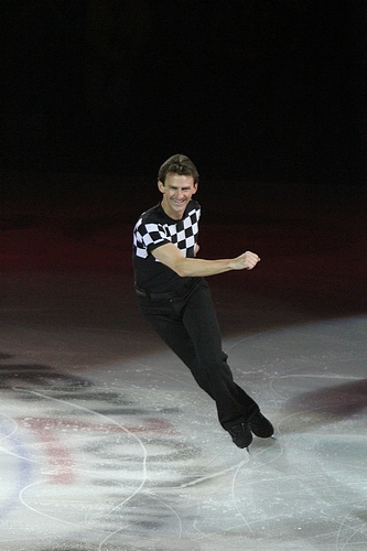 Stars on Ice in Manchester 2010.